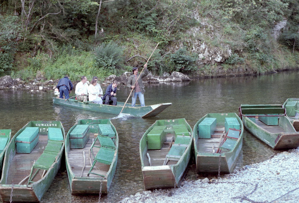 I took this picture myself in September, 1985, using a Canon F-1, and later scanned it into digital form from a color negative. It shows a number of boats used to take tourists, such as myself, for a ride through the Gorges of the Tarn (Gorges du Tarn) in southwest France. A boatman with a group of passengers is just starting out.